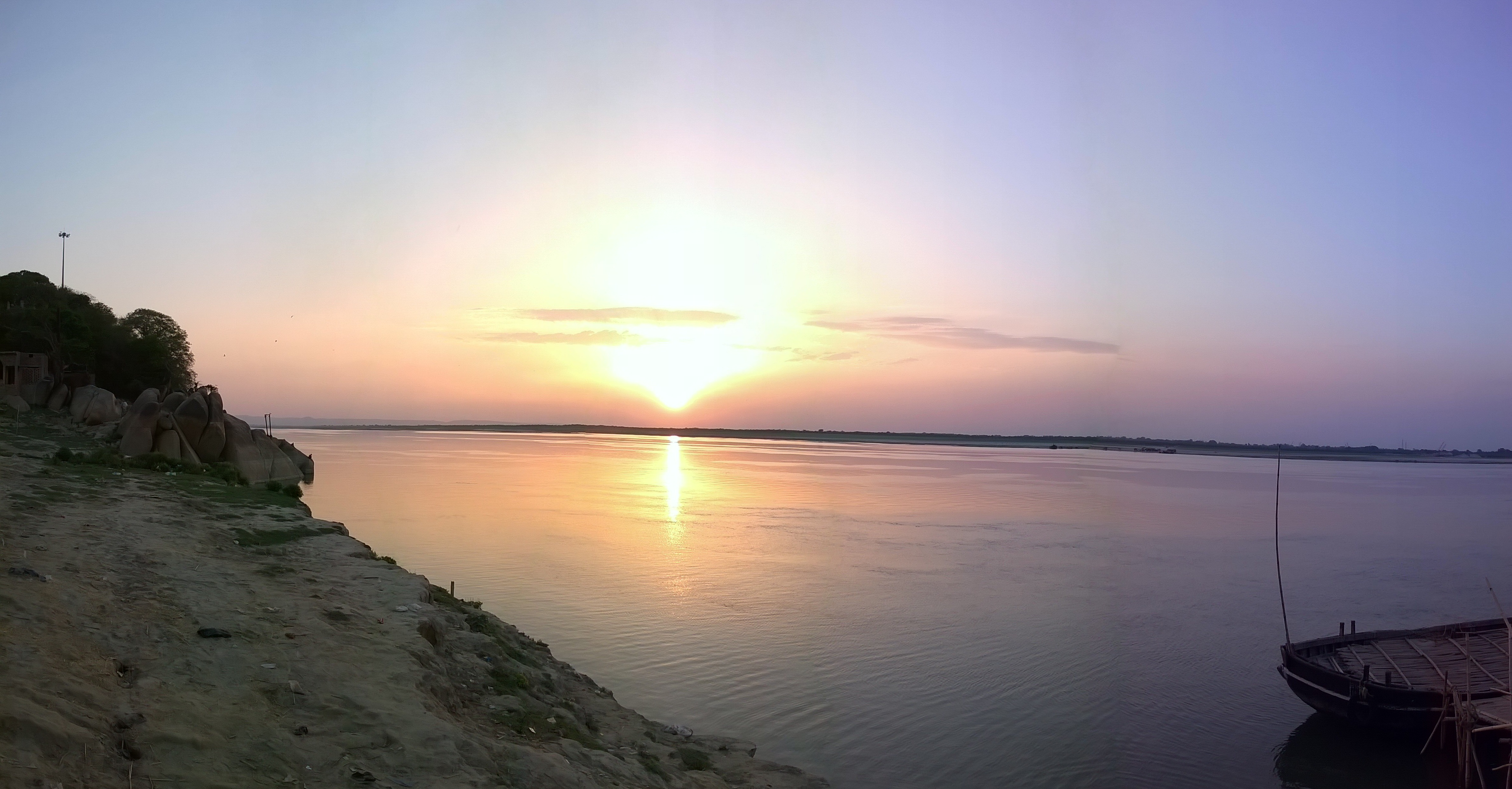 The photo was taken in Baalu Ghaat, Sultanganj which lies in the district of Bhagalpur, and in the State Bihar. It was taken in perfect sunset in perfect light. It was taken by a 5 Megapixels camera using panorama setting. The combination of orange with blue skies on that particular day was so beautiful that I still believe that the picture I've taken can't even portray 1% of the beauty that I had witnessed that evening.